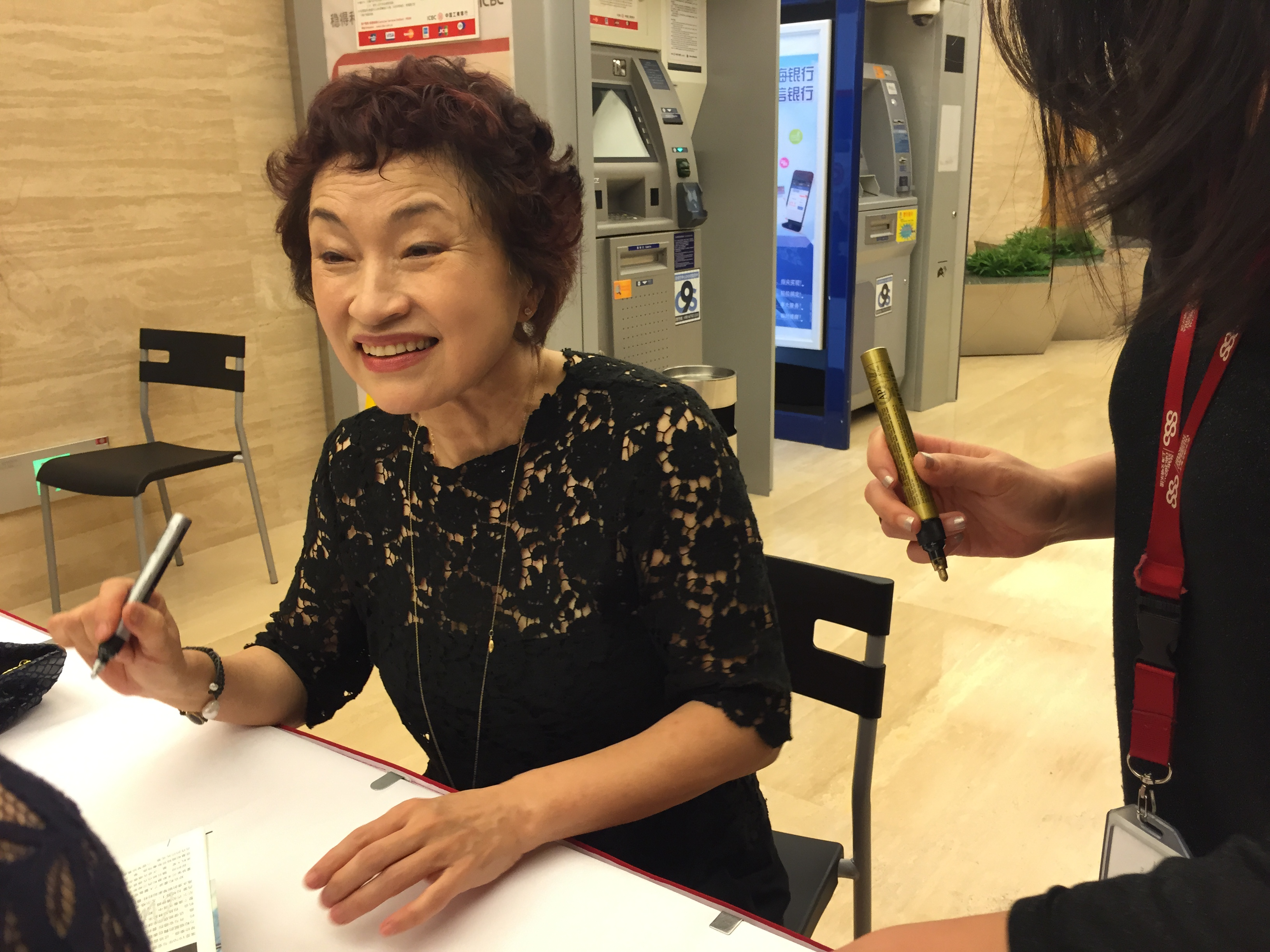 Kyung-wha Chung, the Korean violinist, after the opening concert of Shanghai Symphony Orchestra 2015-16 season.